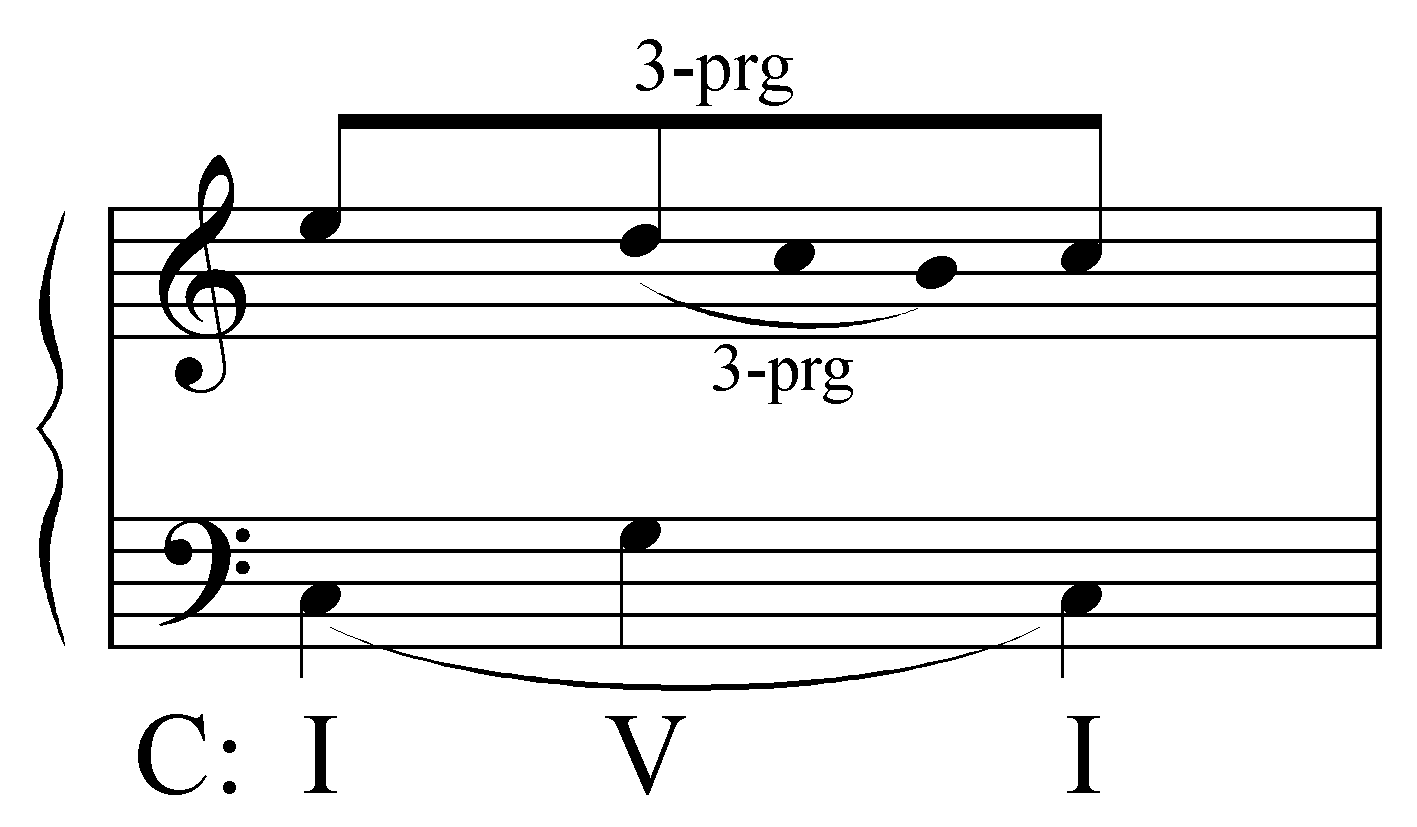 Image corrected to conform to Pankhurst, 2008, p. 30.